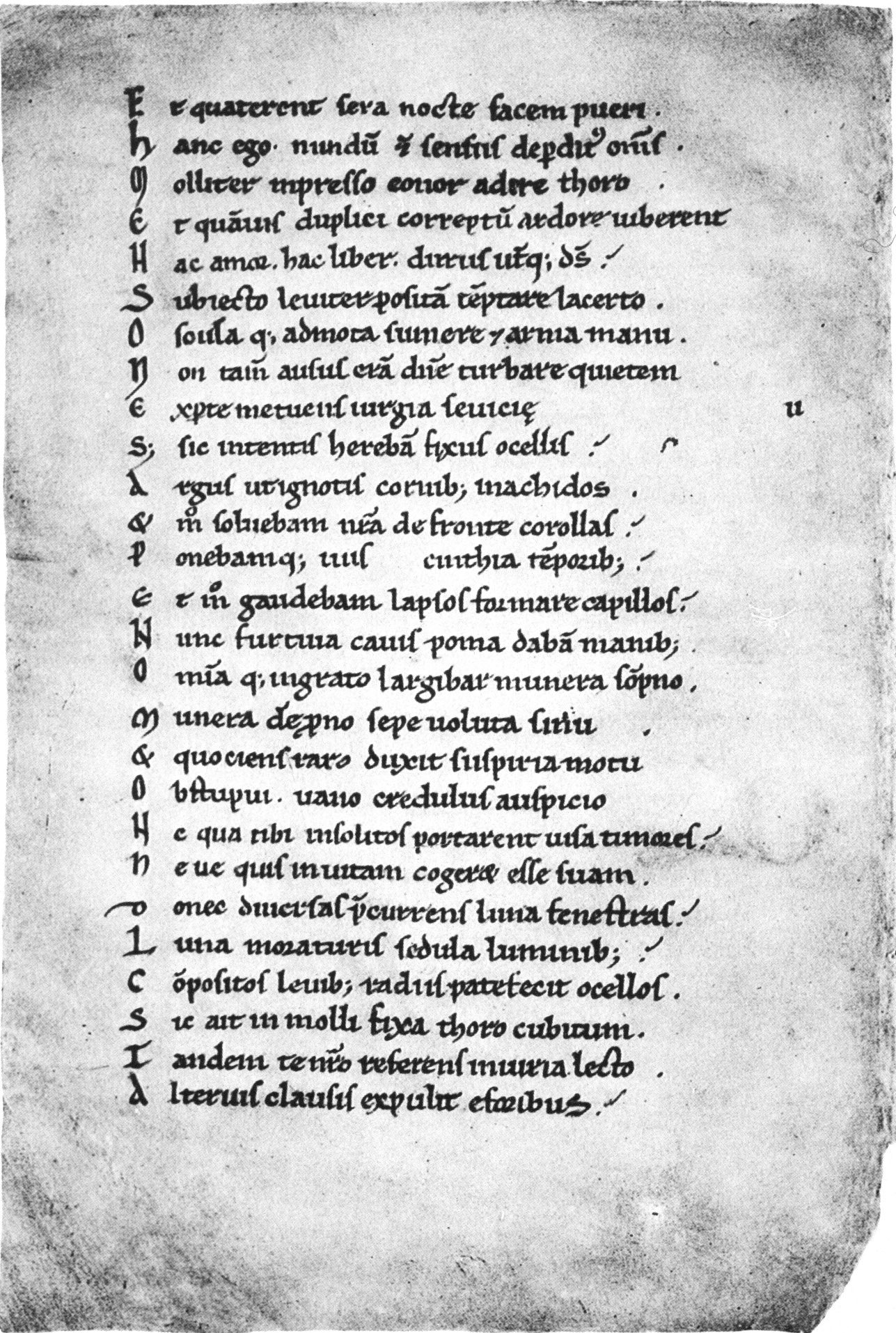 Propertius, Elegies, in ms. Wolfenbüttel, Herzog-August-Bibliothek, Gudianus 224, fol. 2v.